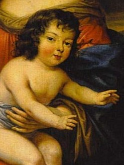 Detail of: Madame de Maintenon with the Count of Vexin and the Duke of Maine